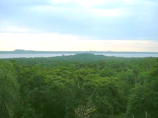 vista del lago ypacarai